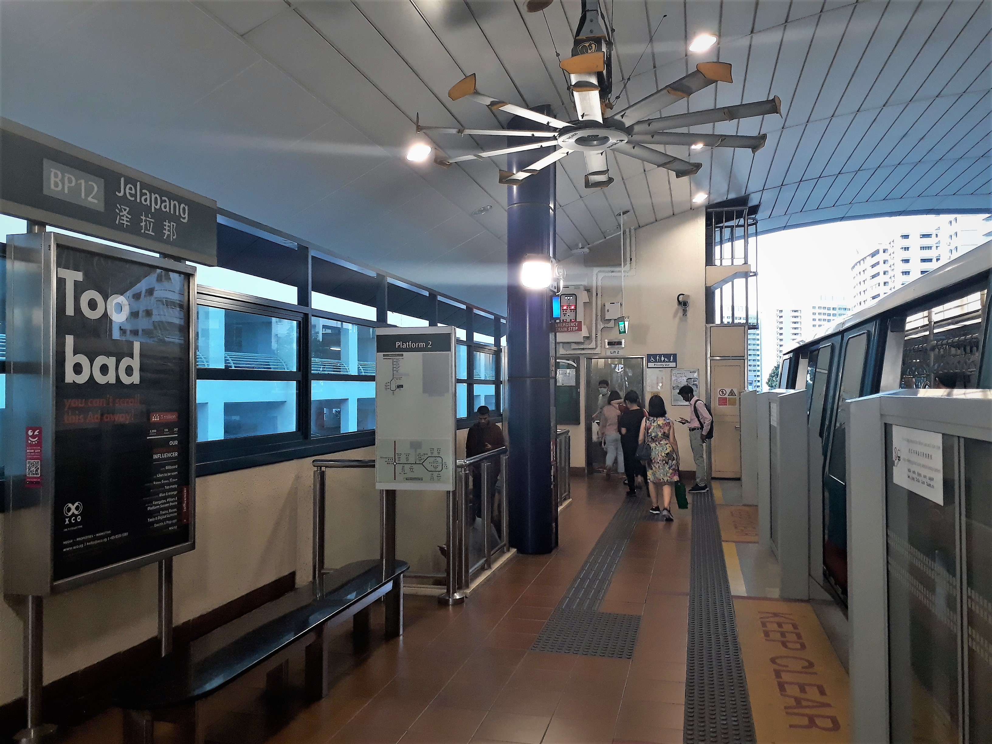 Platform 2 of Jelapang LRT Station